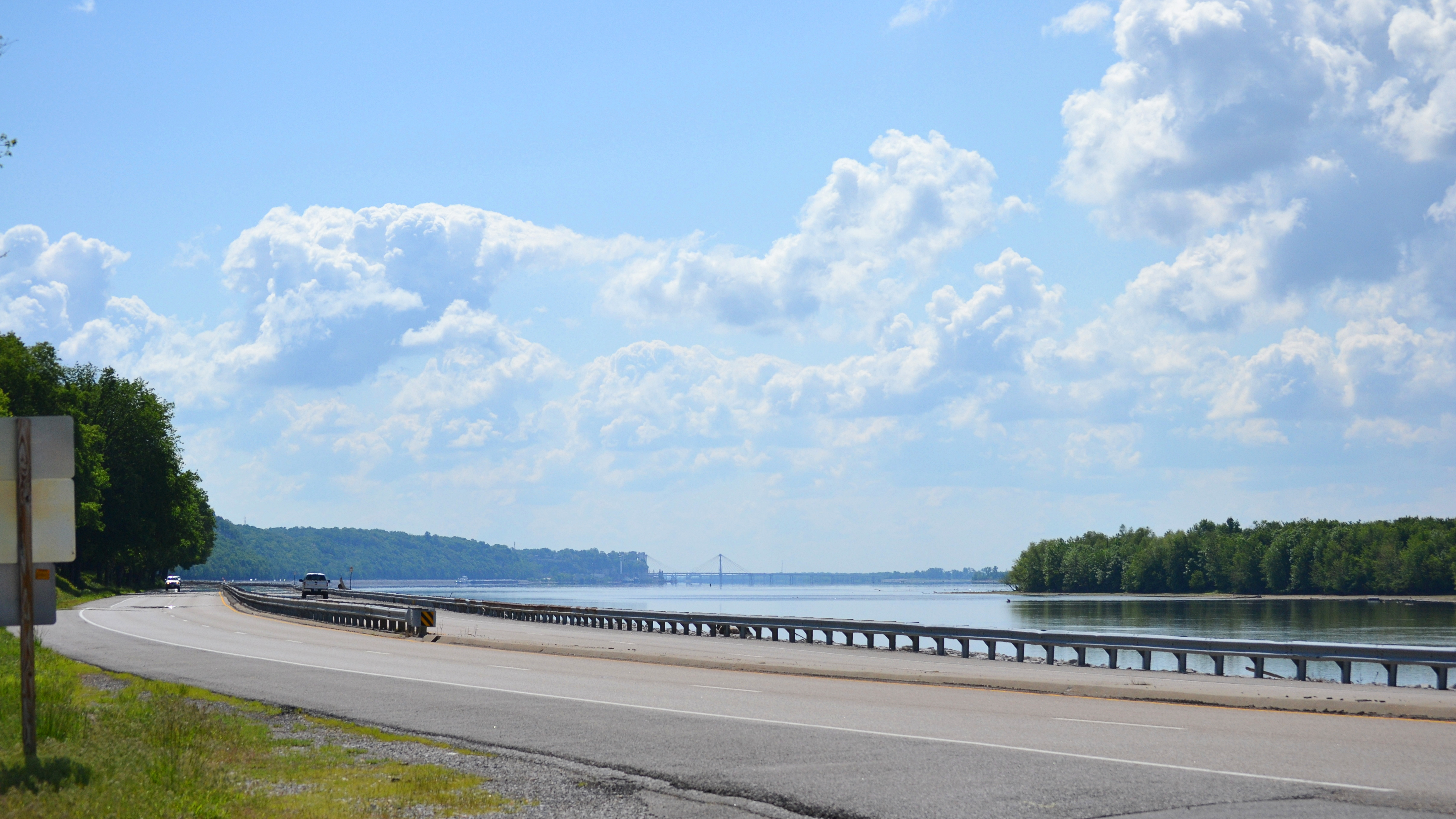 Illinois Route 100 below Godfrey, Illinois along the Mississippi River, part of the Meeting of the Great Rivers Scenic Route section of the Great River Road.